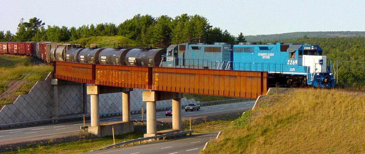 20-car freight train northbound on the Cape Breton & Central Nova Scotia Railway Abercrombie spur, at 8:09am, 12 Sep. 2003. This train originated at the Stellarton yard, and passed through Westville a few minutes before this photograph was taken. It will deliver and pick up cars at two industrial plants, Michelin Tire at Granton and the paper mill at Abercrombie Point. This track – the last remaining section of what used to be known as the Oxford Subdivision of CN – was built about 1870 as the Pictou Branch of the Nova Scotia Railway, except for this new bridge over the TransCanada Highway built in 1998 to accommodate the widening of the TCH to four lanes.